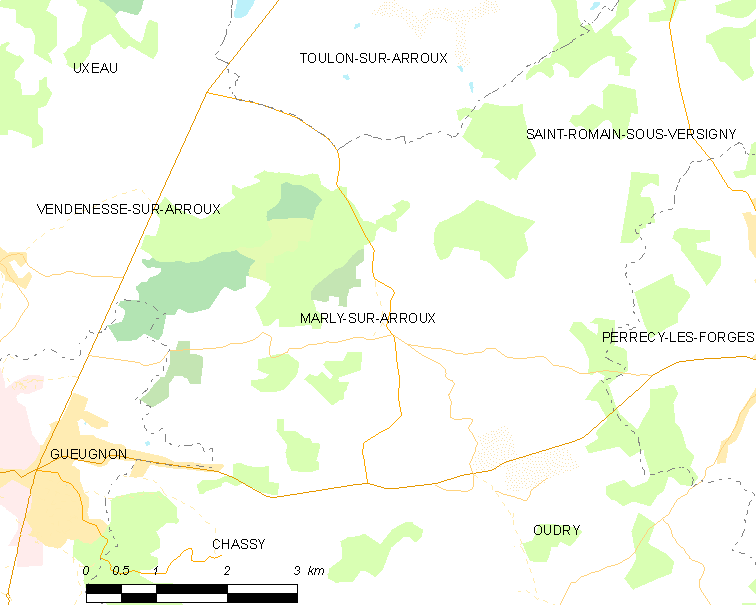 Map of French municipality